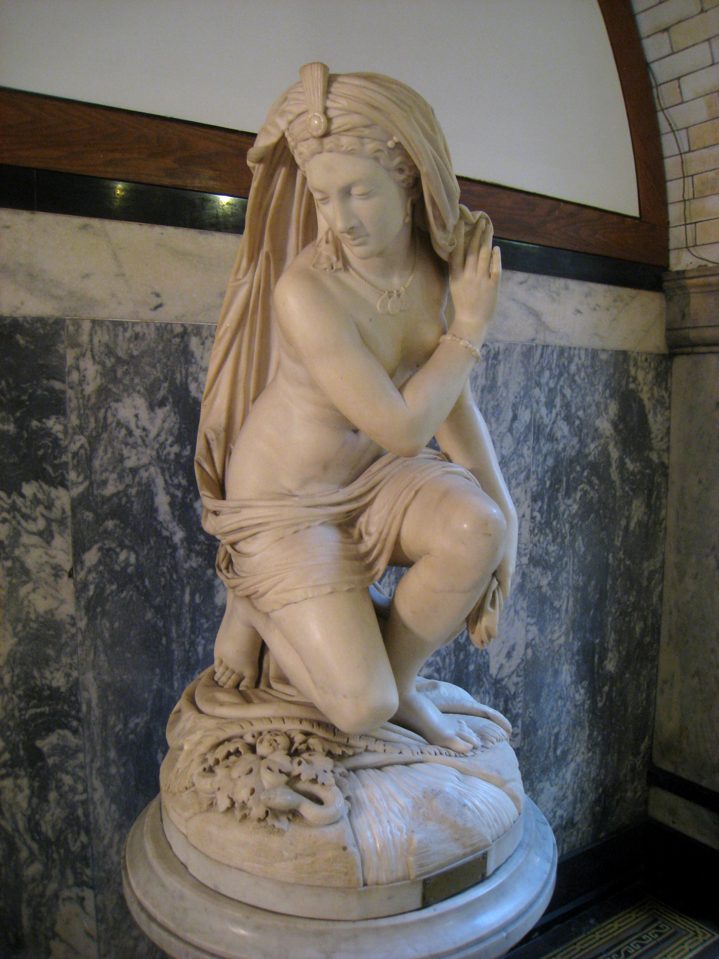 Georgian Surprised at the Bath by Scipione Tadolini (1822-1892) in Main Building, Drexel University, Philadelphia, Pennsylvania, USA. This artwork is in the public domain because the artist died more than 70 years ago. Donated by Seth B. Stitt, 1904.